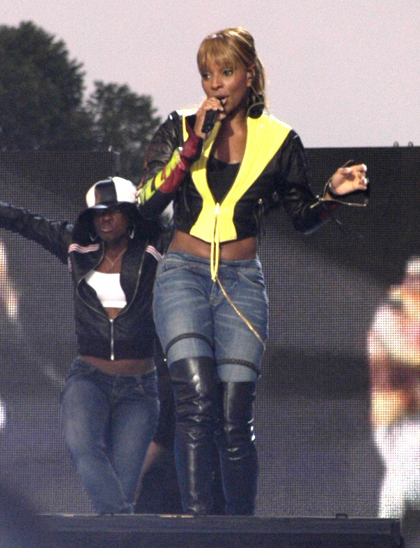 030904-N-1993R-001 Washington D.C. -- Recording artist Mary J. Blige performs on the National Mall during the Operation Tribute to Freedom, NFL and Pepsi sponsored “NFL Kickoff Live 2003” Concert. Organizers provided priority seating for military members and their families. Among the other performers were Aerosmith, Britney Spears, Aretha Franklin, and Good Charlotte. Operation Tribute to Freedom (OTF) was set up by the Department of Defense as a way for Americans to show their appreciation to our men and women in uniform.